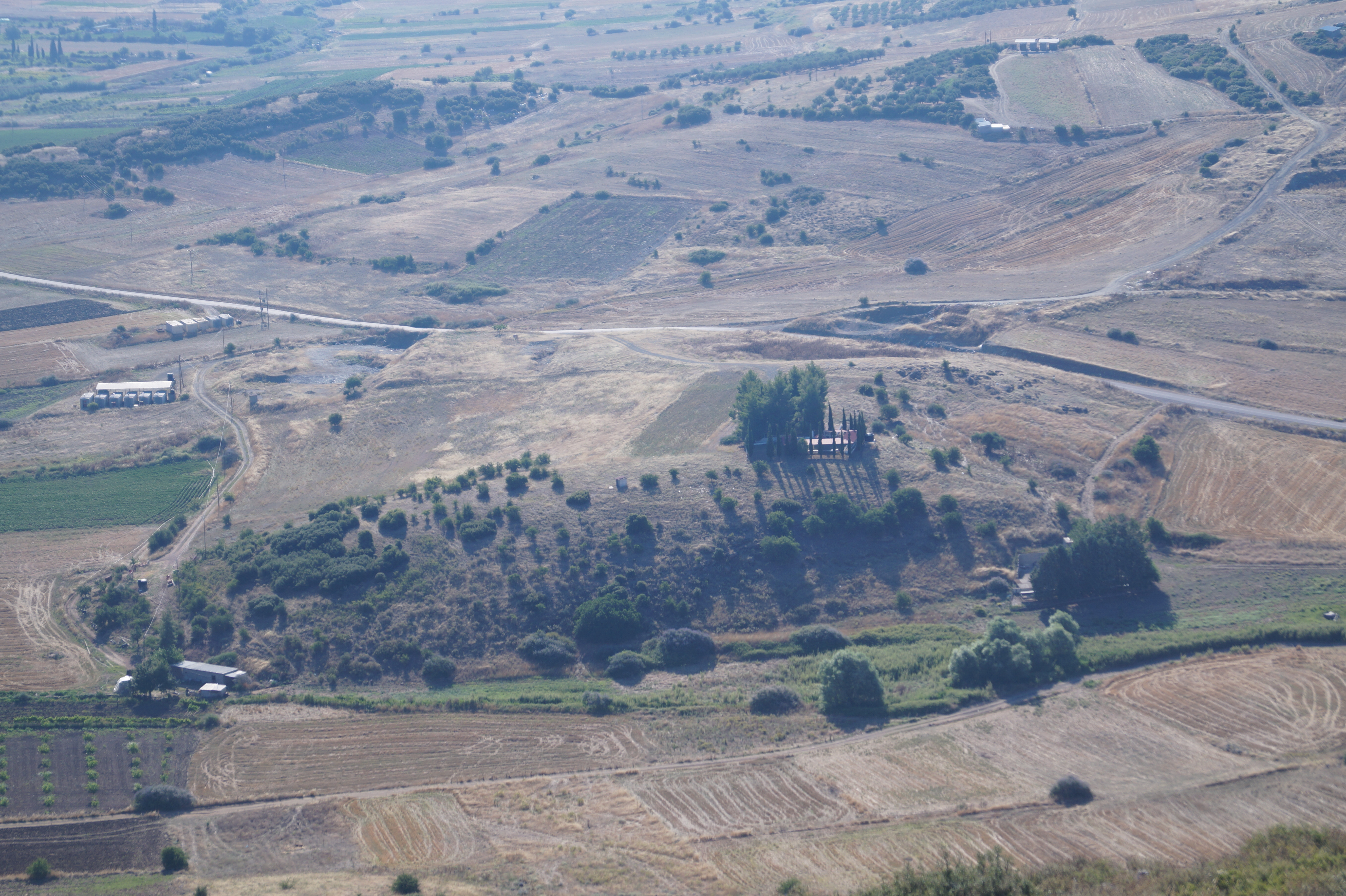 Archaeological site of Abae, Fthiotis, Greece. View from the acropolis to the east on the church of Agios Taxiarchis (Exarchos).